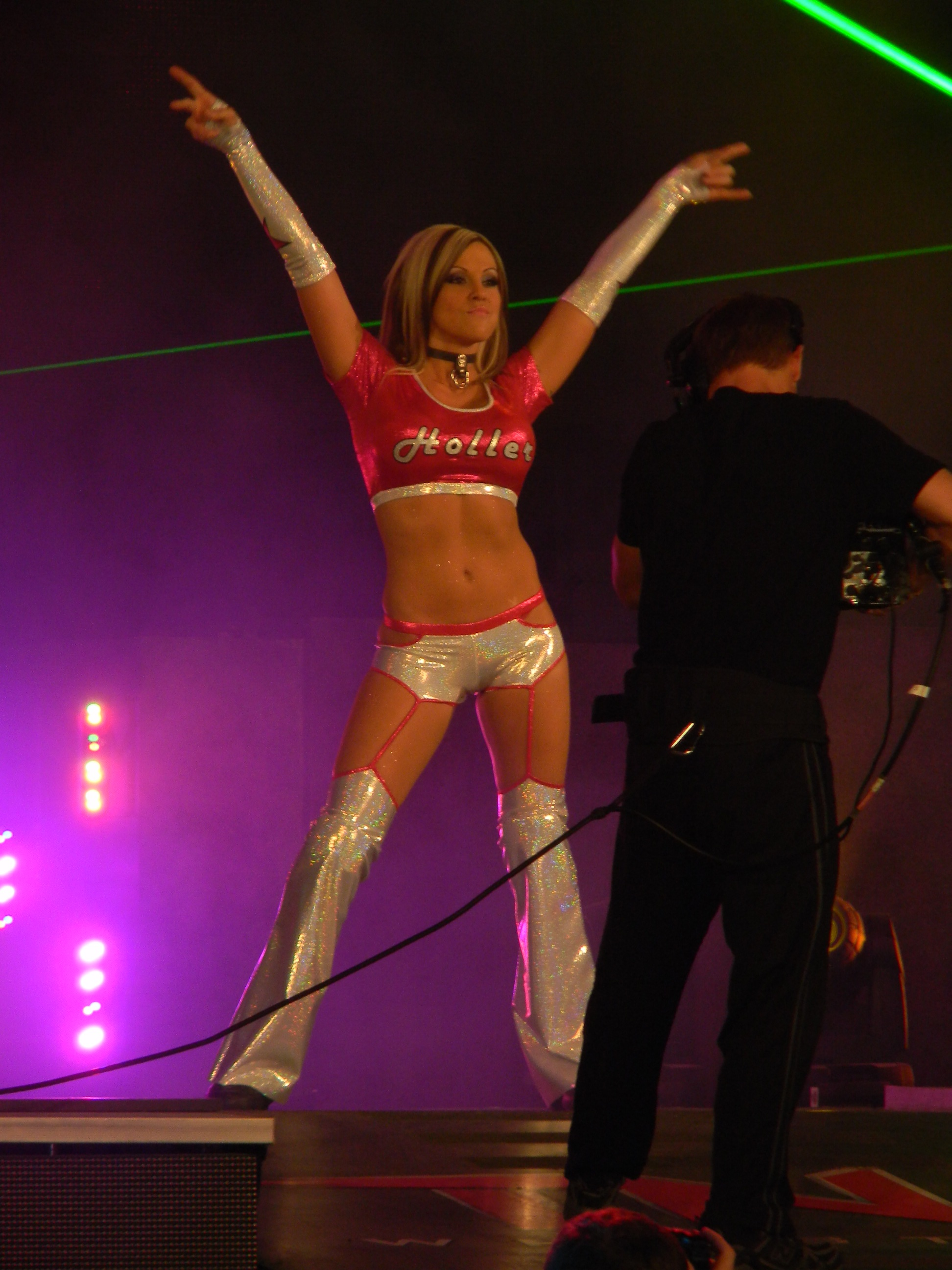 Velvet Sky poses on the stage before making her way to the ring for a four woman Knockouts match during a TNA Impact taping.